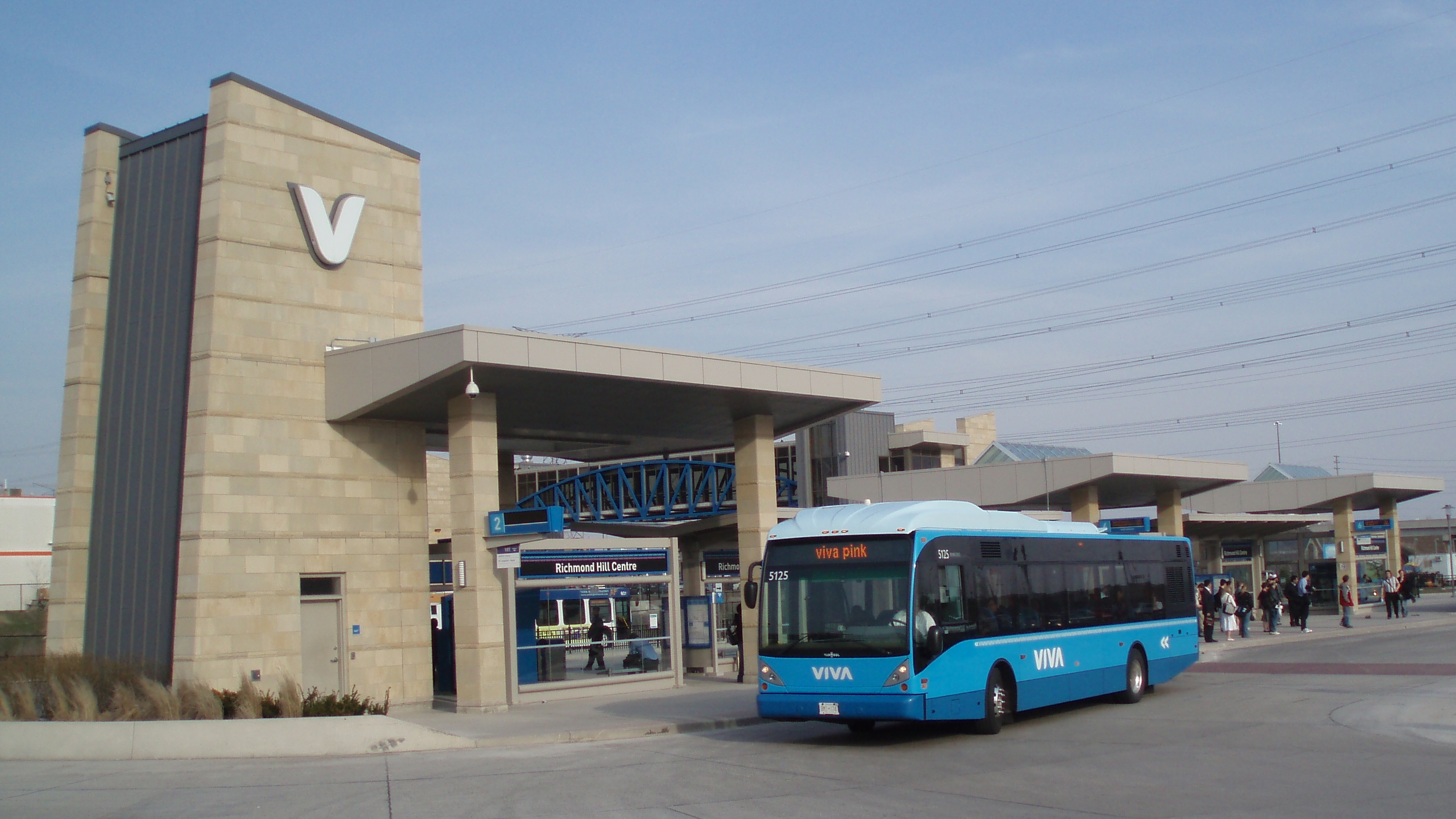 Richmond Hill Centre Terminal. Van Hool A300 L bus? or Van Hool A330 bus?